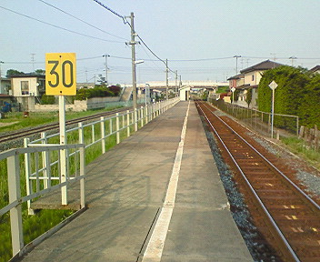 Naganawashiro Station in Home